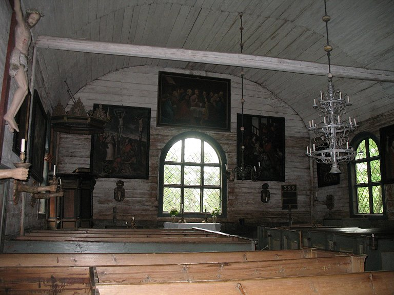 Inside view of the old Karuna museum church, in Seurasaari, Helsinki. This church, originally located in Karuna near Turku in southwestern Finland, is among the oldest buildings in Helsinki (build originally 1686).